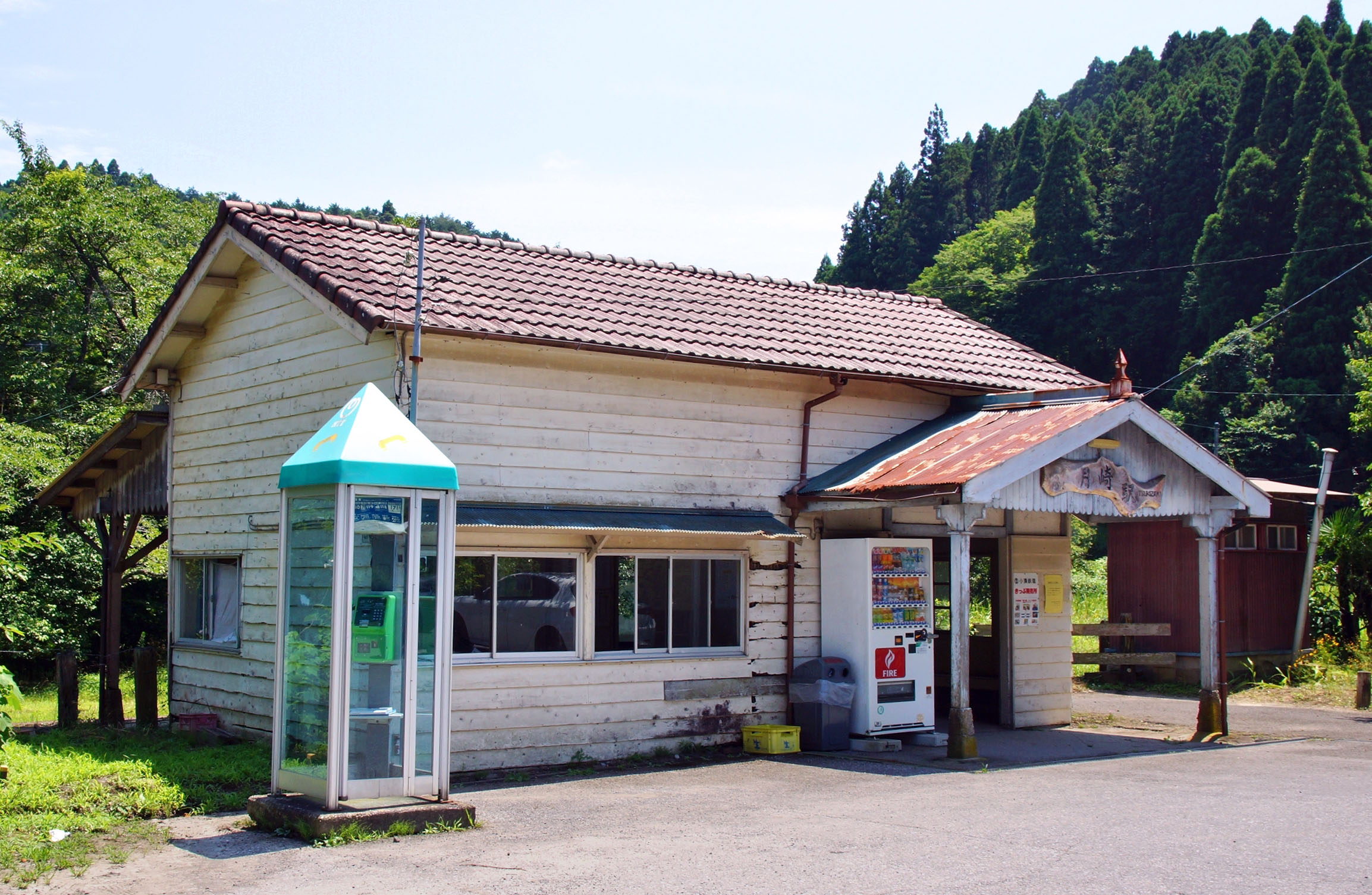 Tsukizaki Station on the Kominato Railway in Chiba Prefecture